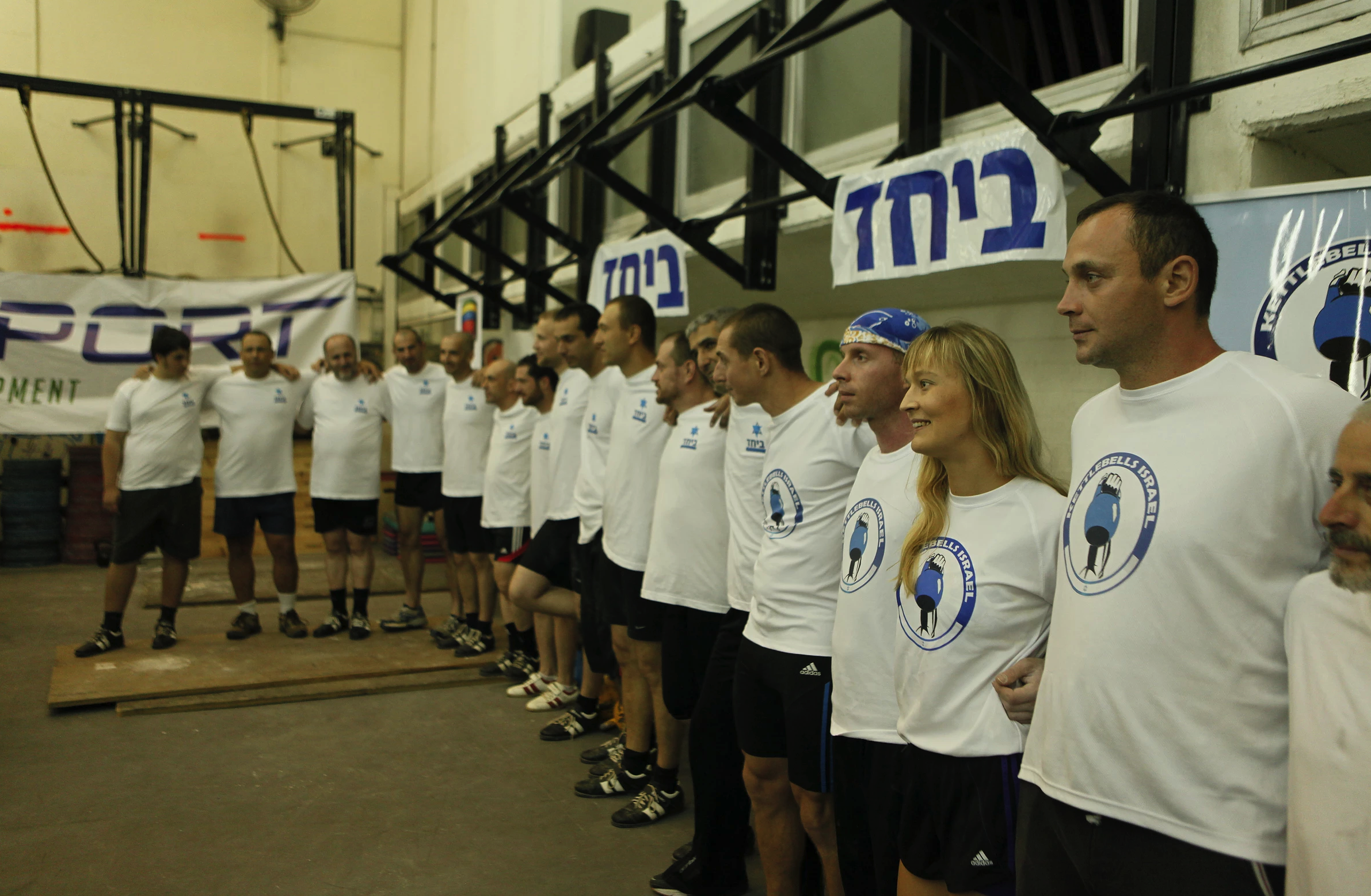 Первый чемпионат Израиля по гиревому спорту